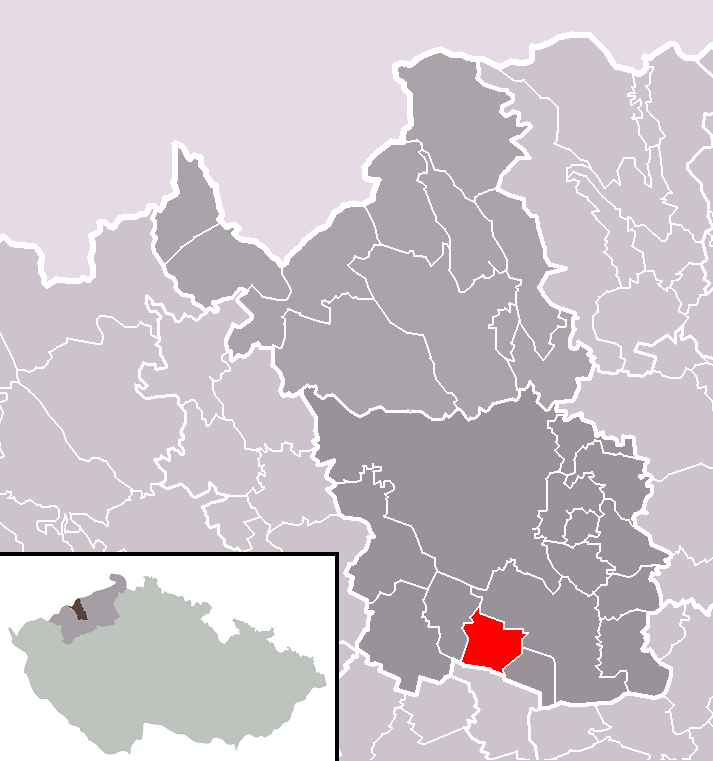 Location of Polerady municipality within Most District and administrative area of Most as a Municipality with Extended Competence.